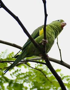 Yellow-chevroned Parakeet in the Southeastern region of Brazil